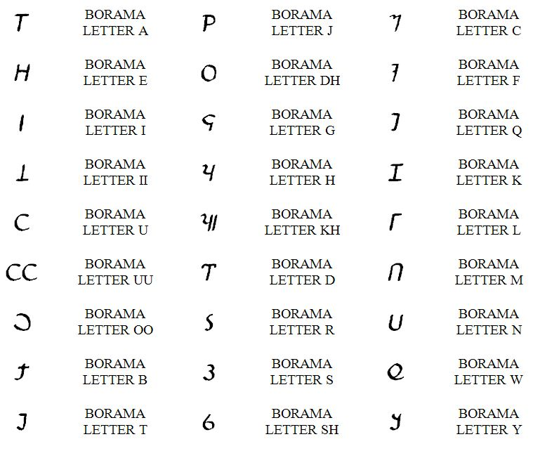 Borama Alphabet Chart